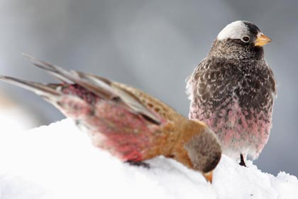 Brown-capped Rosy Finch Leucosticte australis (left) and Black Rosy Finch Leucosticte atrata (right)